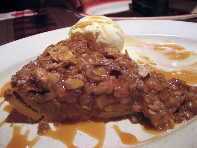 This was AWESOME